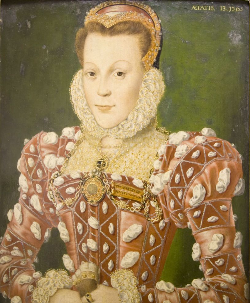 Portrait of Mary (Browne) Wriothesley, Countess of Southampton, aged about 13, at the time of her marriage, 1565